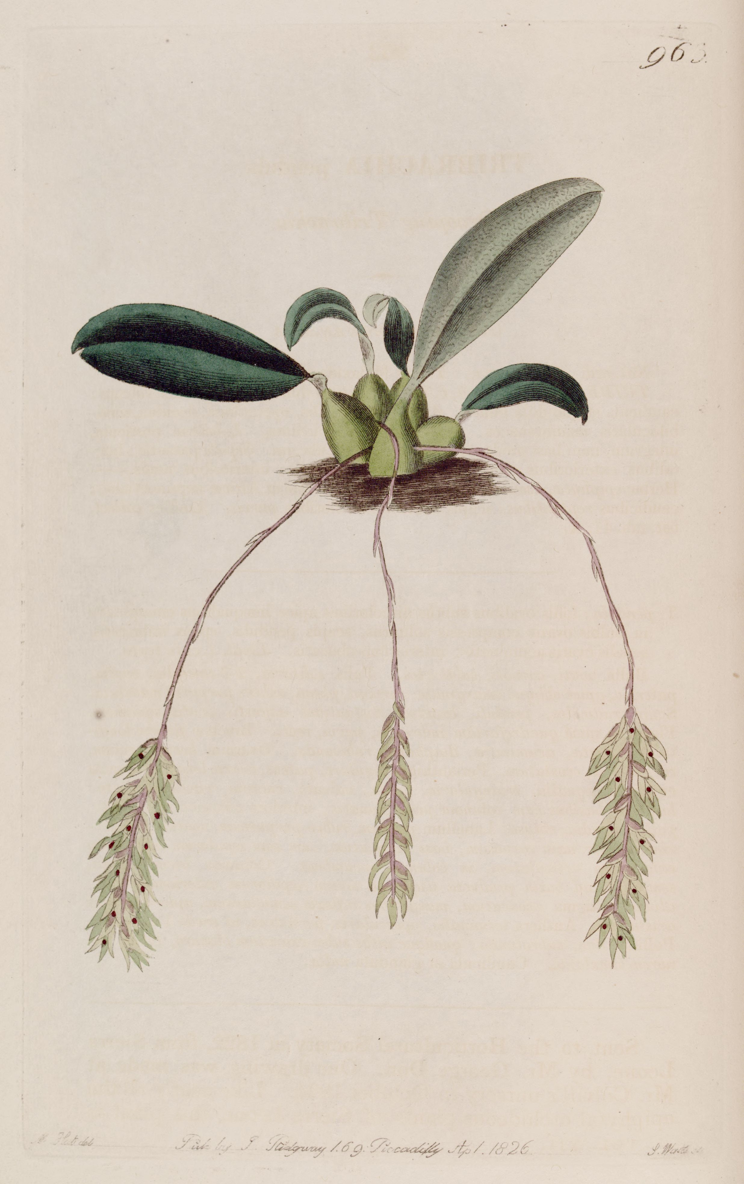 Illustration of Bulbophyllum pendulum (as syn. Tribrachia pendula)